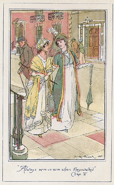 Tinted Line Drawing by H.M. Brock for Northanger Abbey, ch.5 : Catherine and Isabella were always arm in arm when they walked.